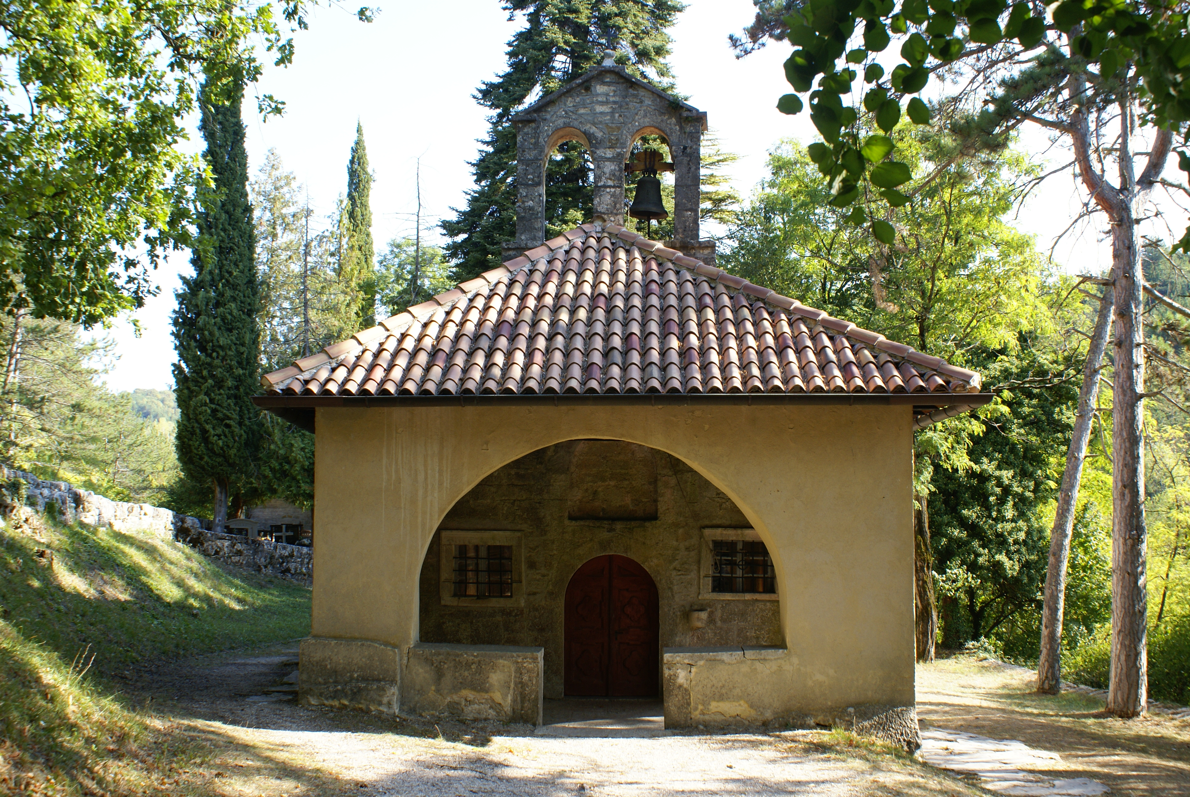 Church of St. Mary in Beram